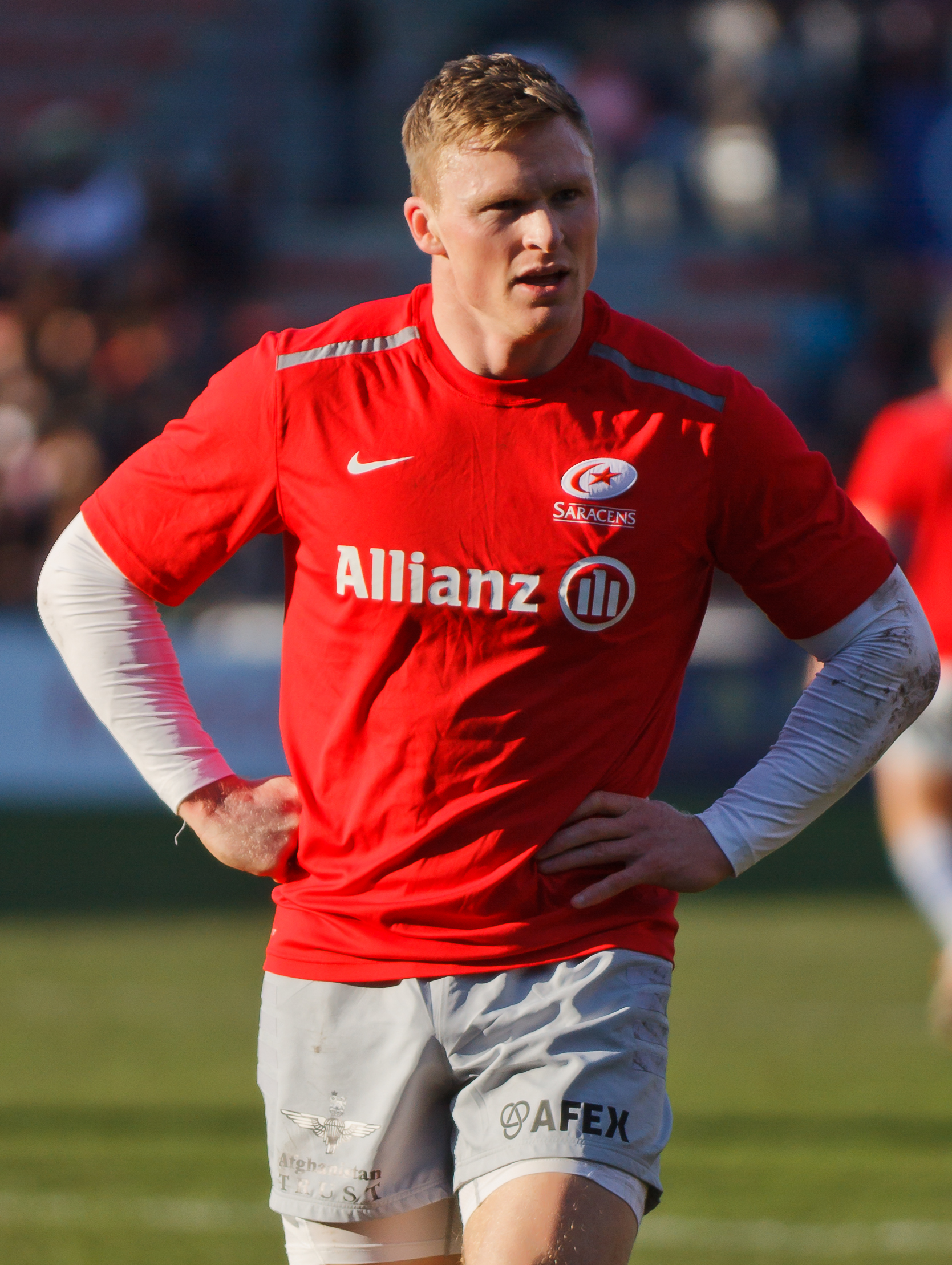 Chris Ashton during warm-up session of Heineken Cup match between Stade toulousain and Saracens, on January 12th, 2014.